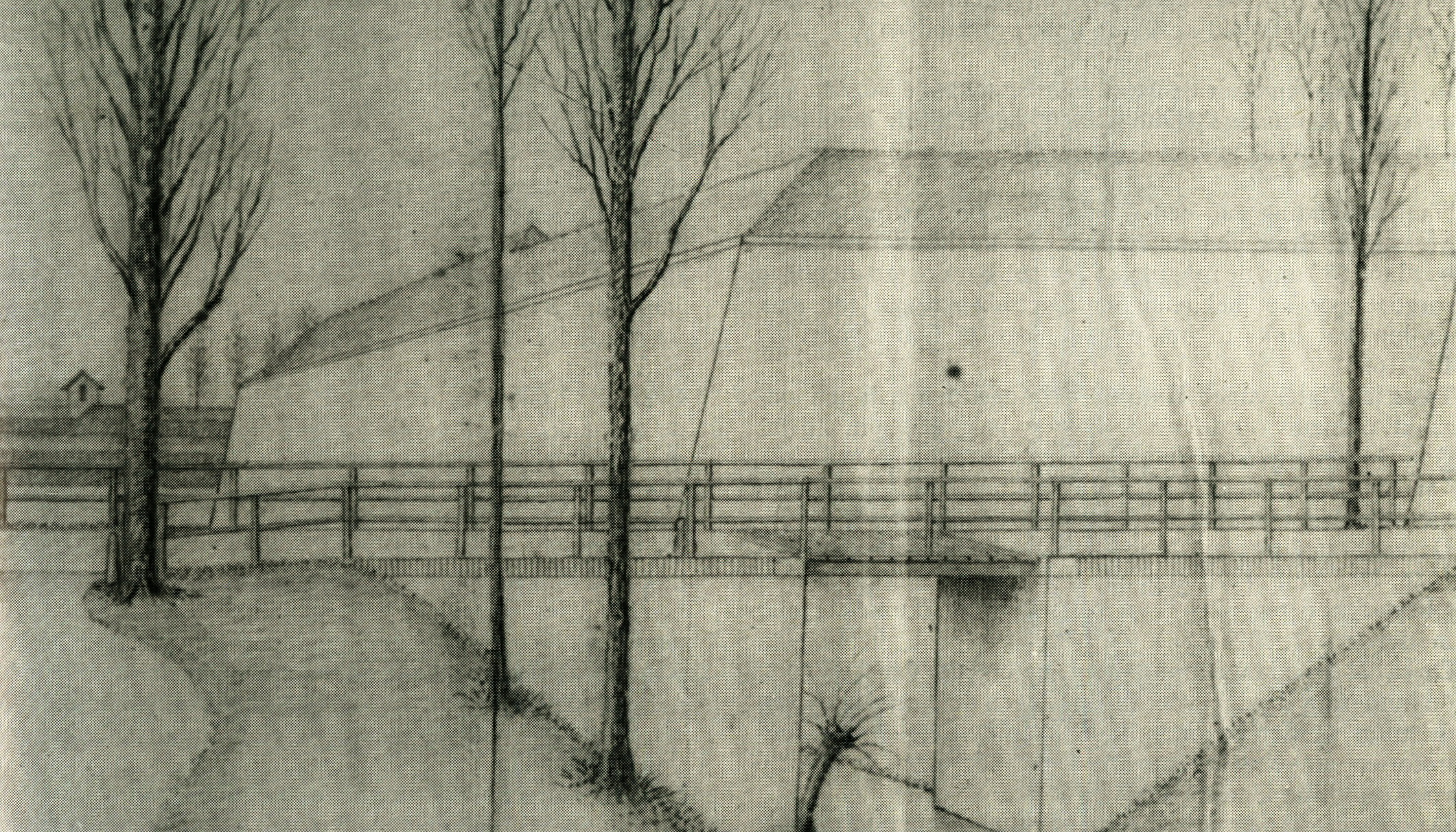 View of the bastion outside Sint-Maartenspoort, the northeastern city gate of the Maastricht suburb Wyck. Drawing by Jan Brabant ((1806-1886).